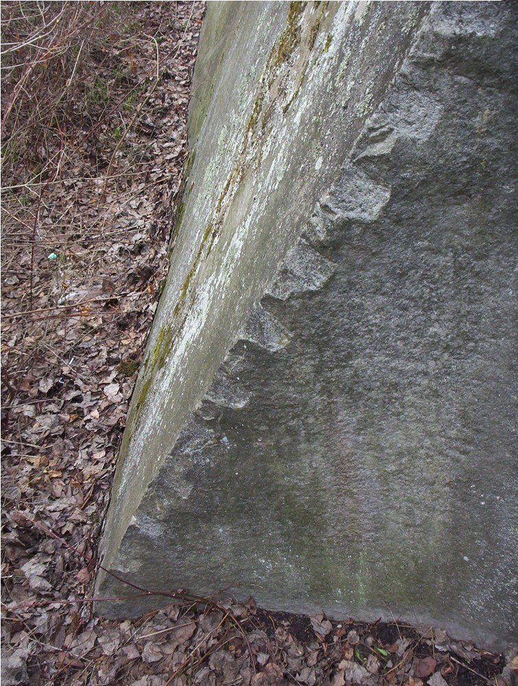 Glacial erratic (Mszczonów stone) in Zawady (powiat skierniewicki), Poland.